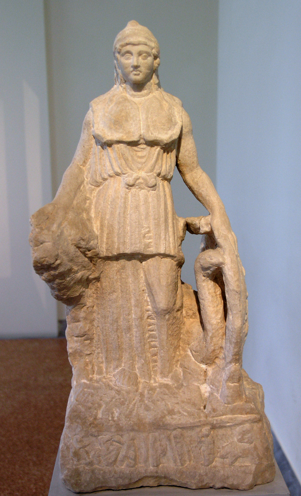 Statuette of Athena. Pentelic marble. Found in Athens, near the Pnyx. Known as the "Lenormant Athena", this statuette copies the Athena Parthenos by Pheidias. Although unfinished, the work is important because it preserves the relief representation of an Amazonomachy on the exterior of the shield and the relief image of the Birth of Pandora on the base — themes that adorned the original statue of Athena. The copy probably dates to the 1st century AD.